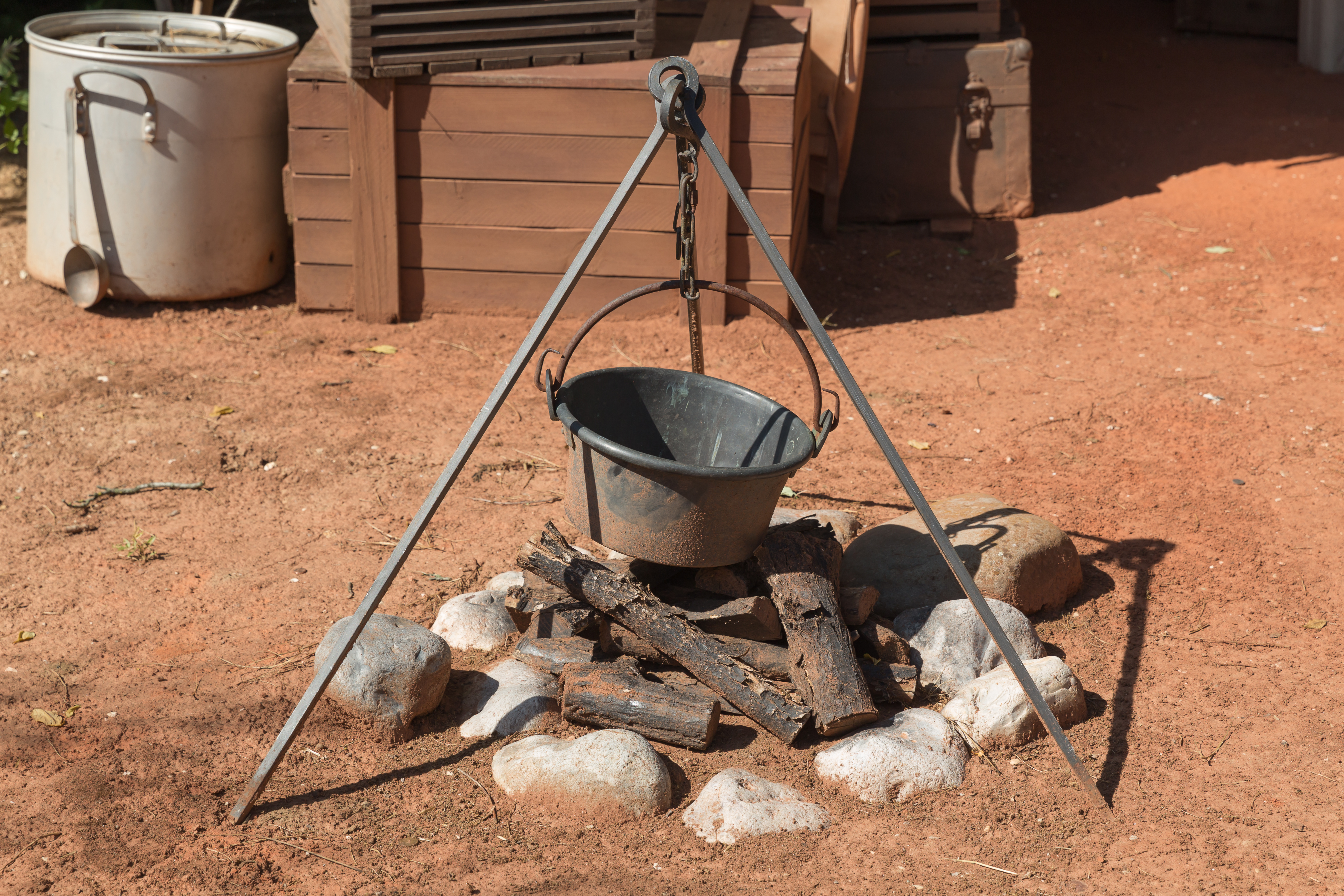 Campfire in the Disneyland Paris.